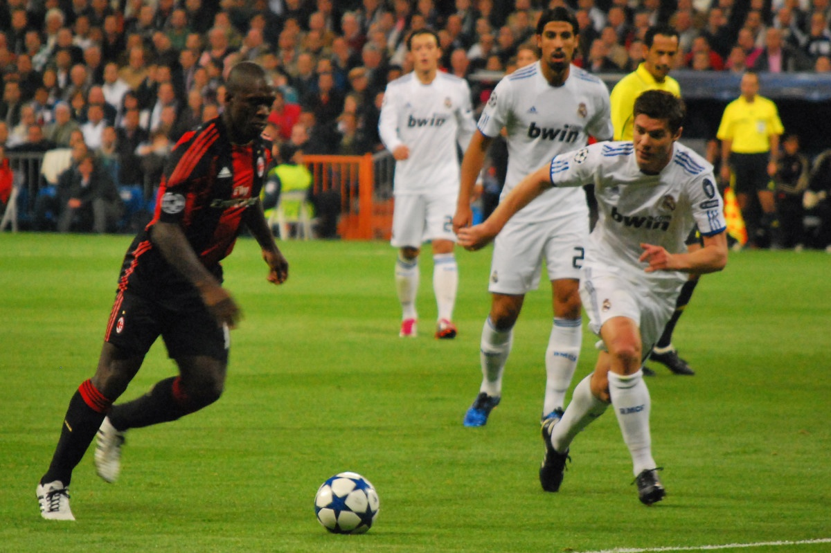 Clarence Seedorf and Xabi Alonso during Real Madrid CF-AC Milan, 2010–11 UEFA Champions League